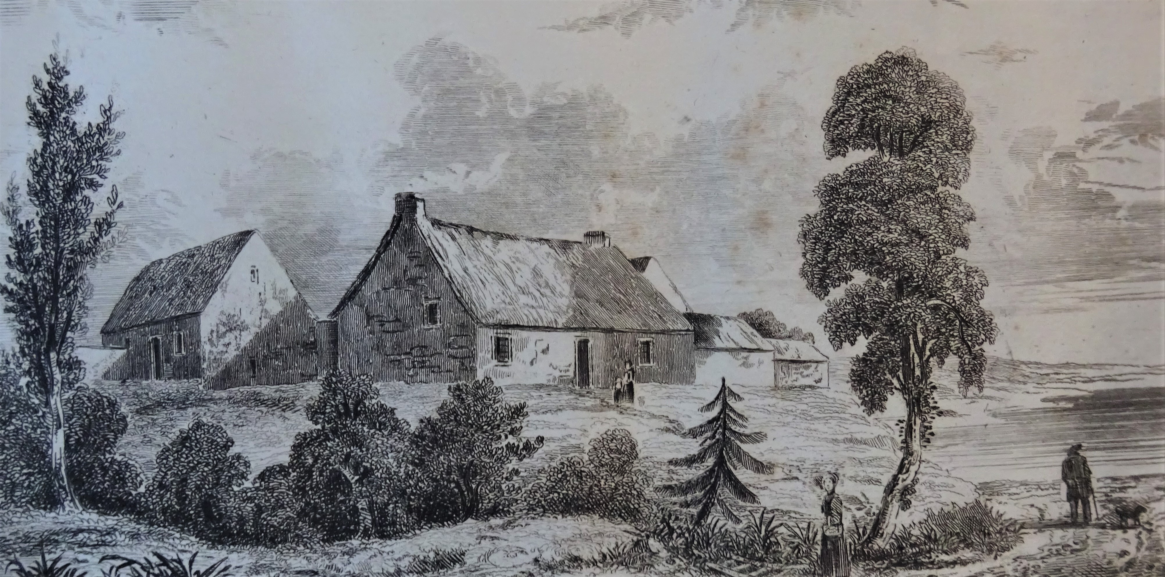 Spittleside or Spittalside Farm, Tarbolton, East Ayrshire, Scotland. The first home of David Sillars or 'Dainty Davie' the close friend of Robert Burns.